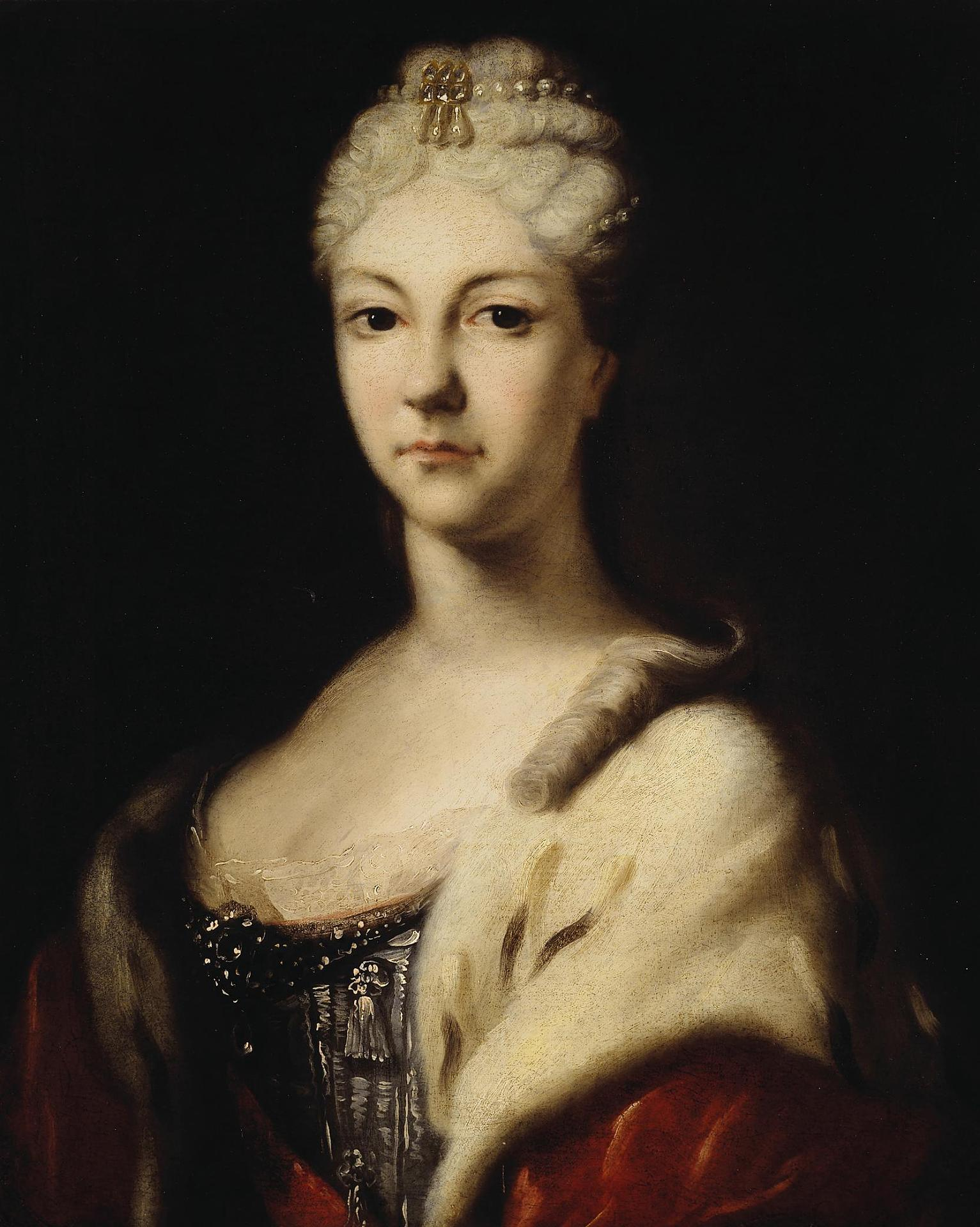 Portrait of Natalya Alexeevna of Russia